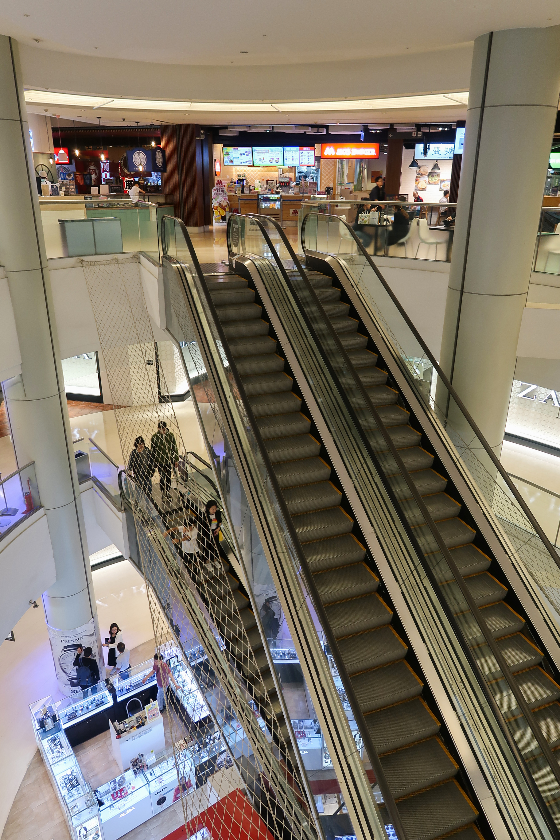 Tiger City Void